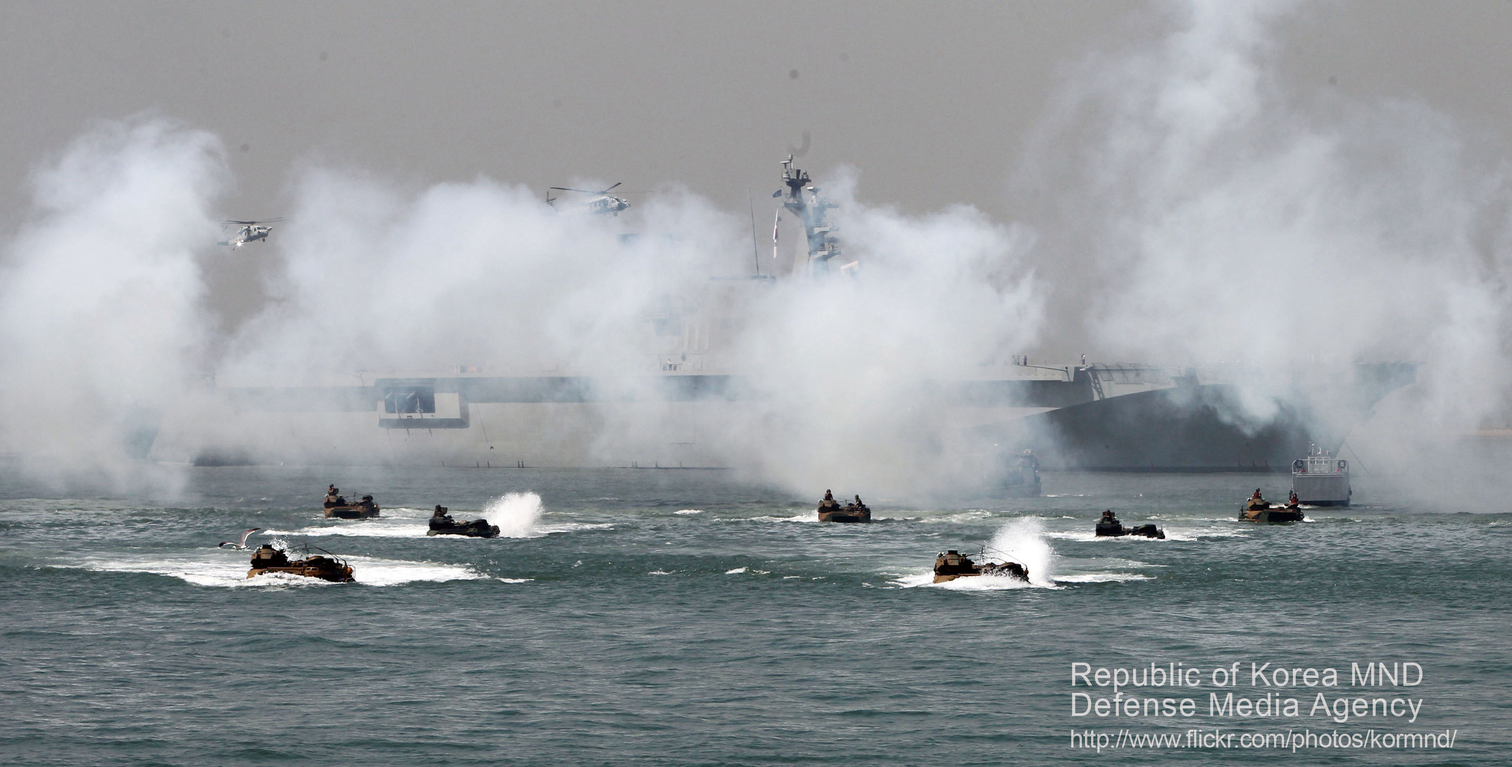 2010 국방화보 Rep. of Korea, Defense Photo Magazine 9월 15일 인천시 중구 월미도 앞 해상에서 열린 인천상륙작전 제60주년 기념 재연 행사. Reenaction ceremony of the 60th anniversary of Incheon landing operation at the coast of Wolmido, Incheon, September 15.